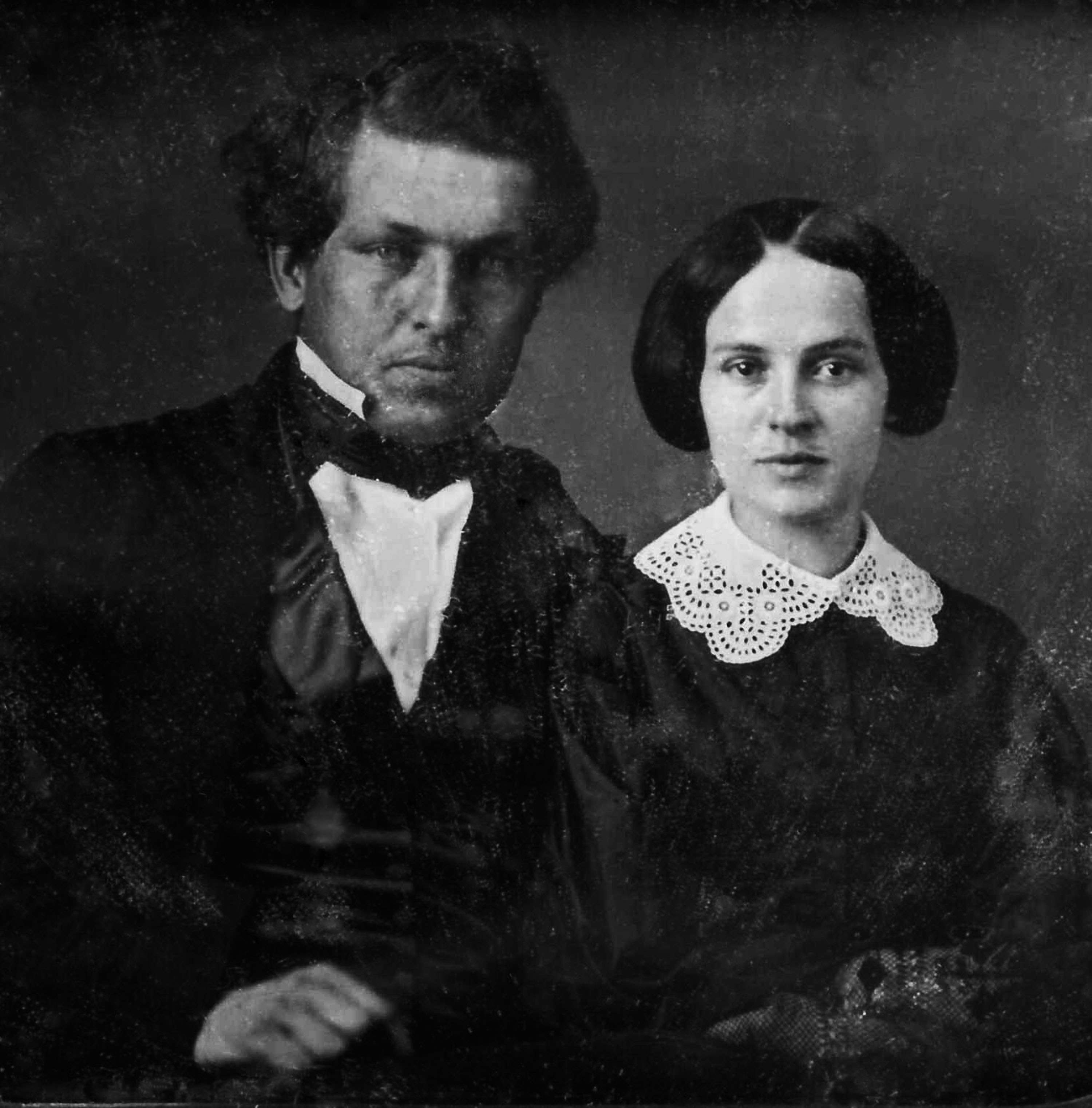 Cleaned up photo of James A. Garfield and Lucretia Rudolph was taken around the time of their engagement. (Western Reserve Historical Society)